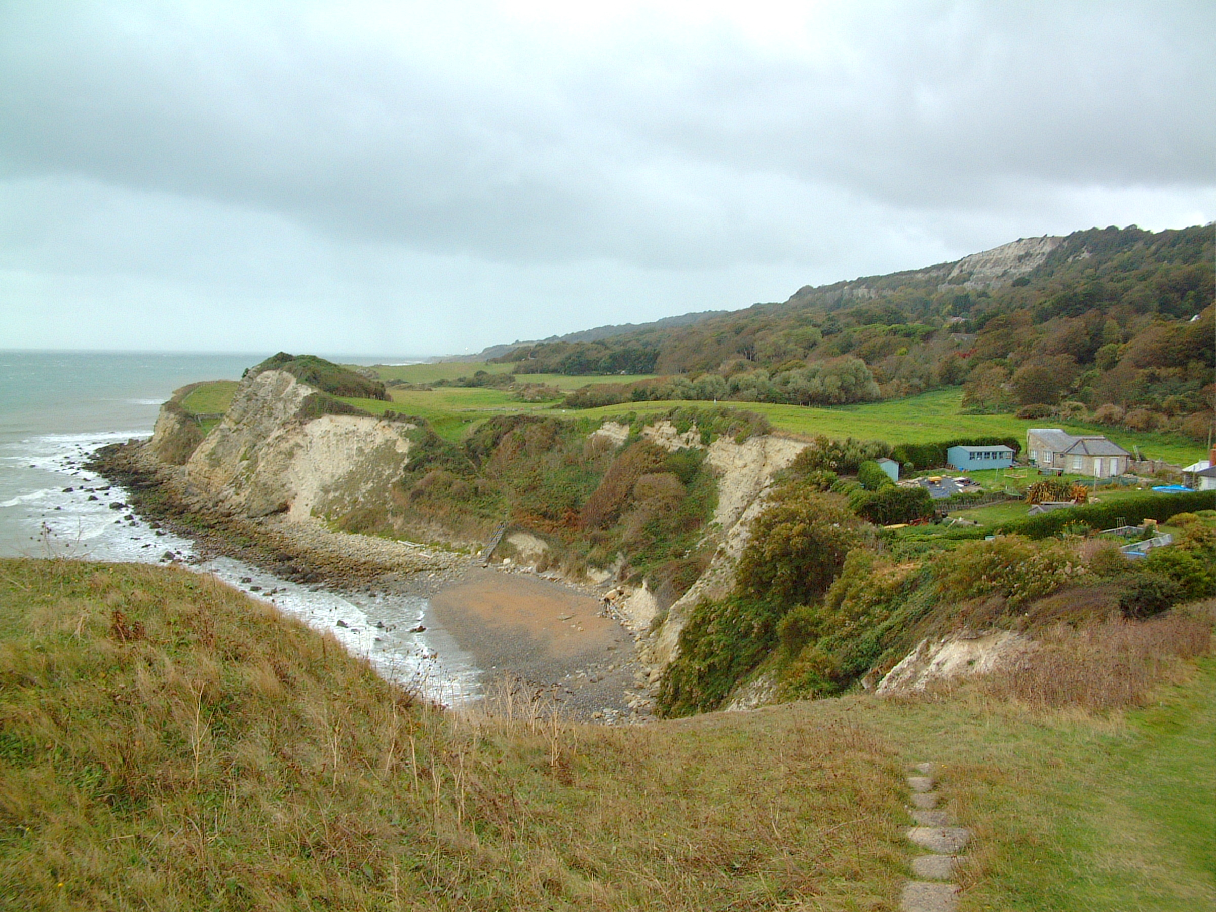 The Undercliff, Isle of Wight, looking westward at Woody Bay. The Undercliff is a landslip complex, with a bench of land above low cliffs, backed by higher cliffs to landward.